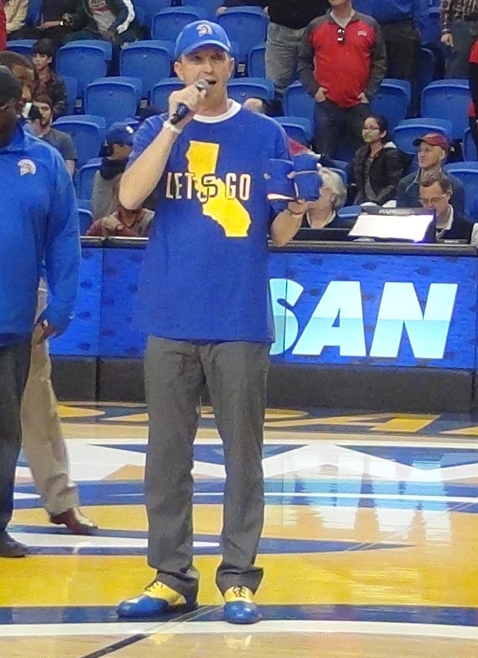 This file has been extracted from another file: Brent Brennan and 2017 SJSU football coaches.jpg